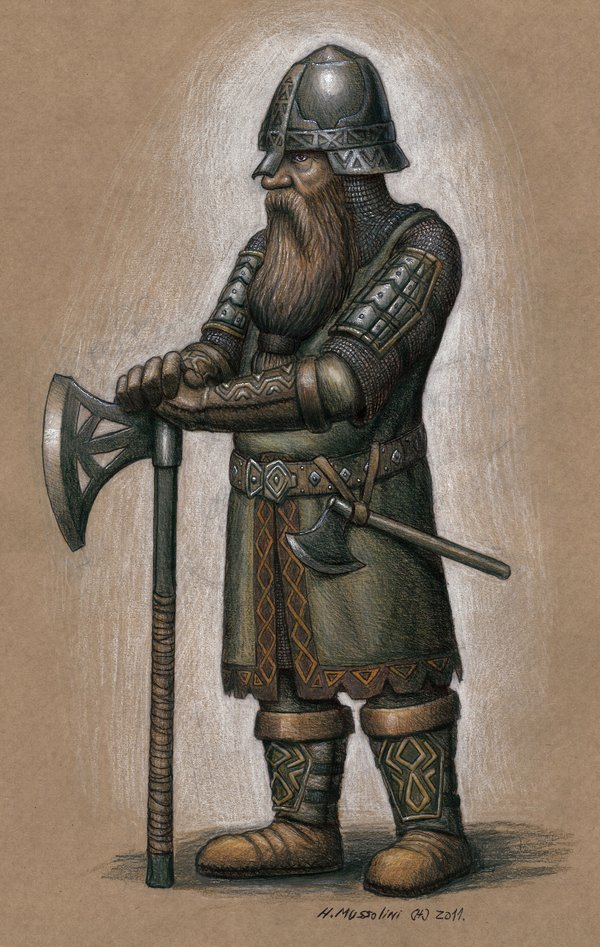 A Dwarf by BrokenMachine86 . Colored pencils and ink on brown paper.